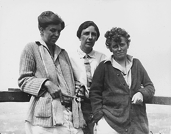 Eleanor Roosevelt, Marian Dickerman, and Nancy Cook on Campobello Island, New Brunswick, Canada in June 1926.